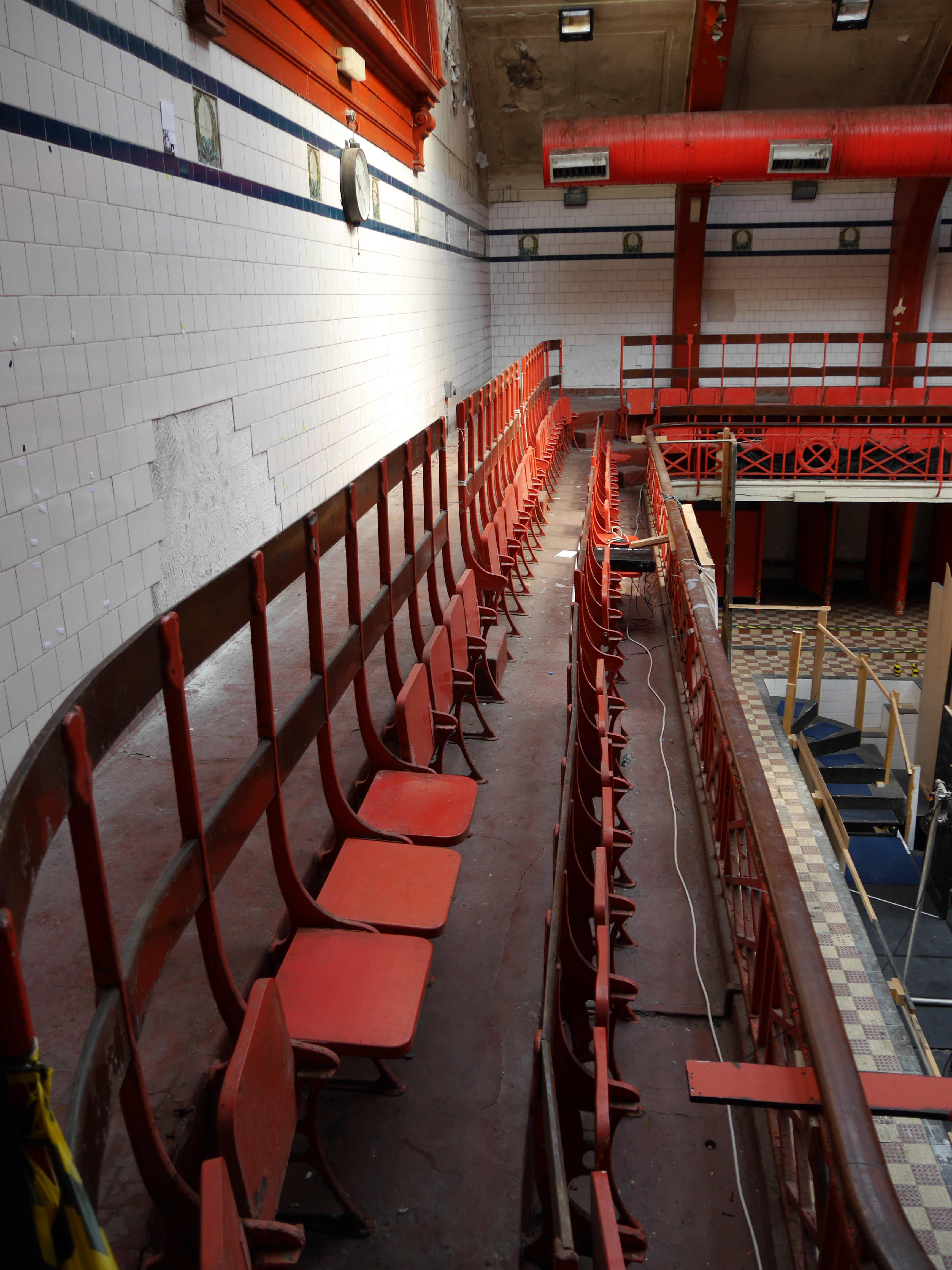 GLASGOW, GOVANHILL, 99 CALDER STREET, CALDER STREET PUBLIC BATHS AND WASHHOUSE Wikidata has entry Q17812575 with data related to this building.